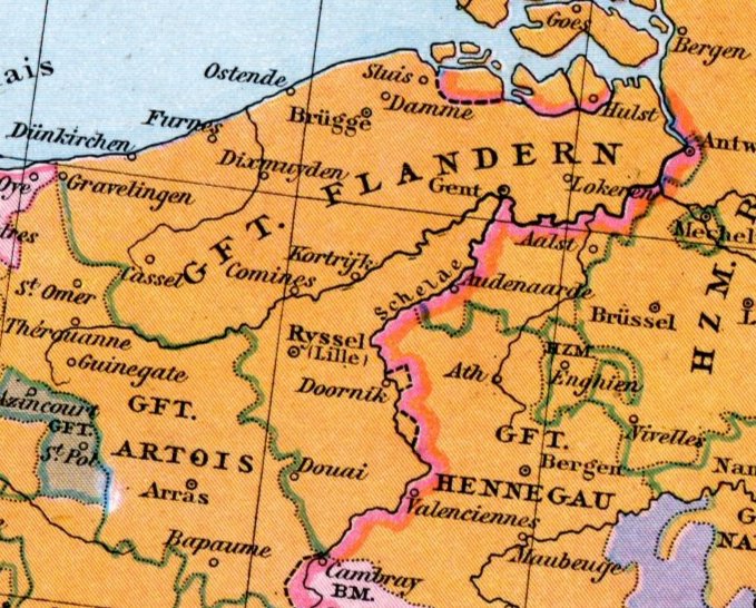 County of Flanders and surrounding territories in the 15th century